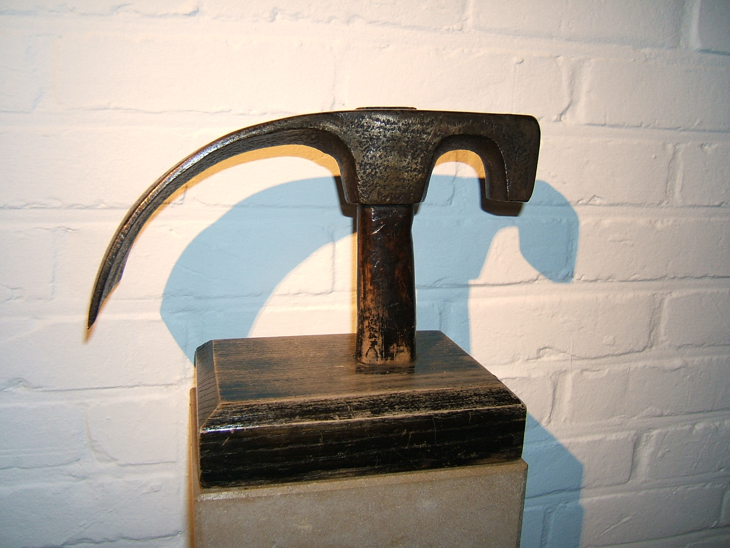 Cooper's adze, mounted as exhibit. This adze was in use by Jules Van den Bossche, the last cooper of Willebroek, Belgium